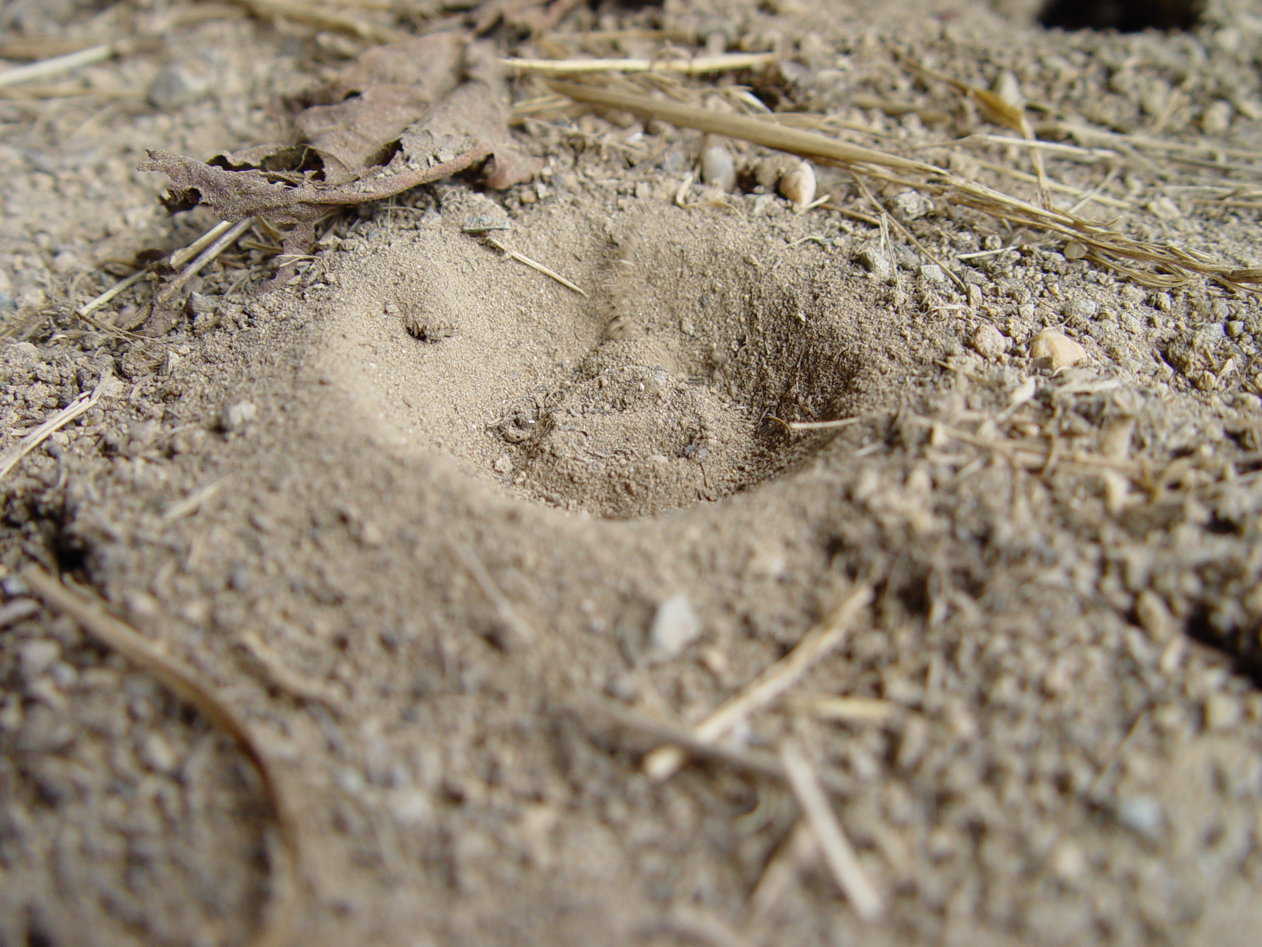 Construction in progress.